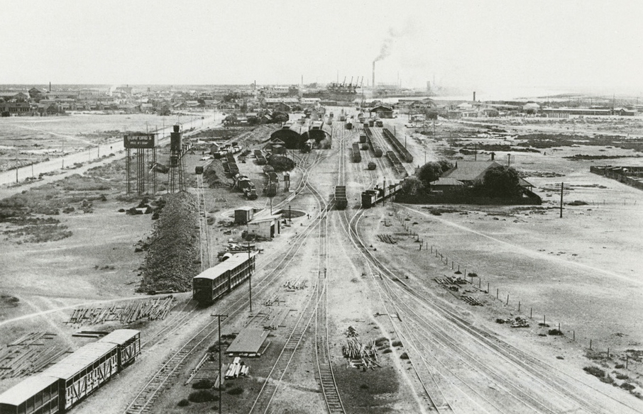 A photo from an elevated viewpoint of Port Pirie South railway yard (with narrow gauge tracks only), looking north, about 1910